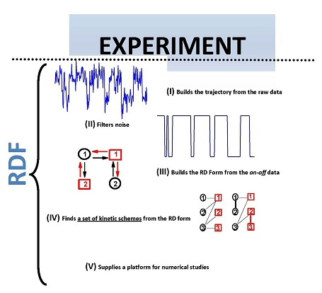 EXPLAINS WHAT RDF DOES